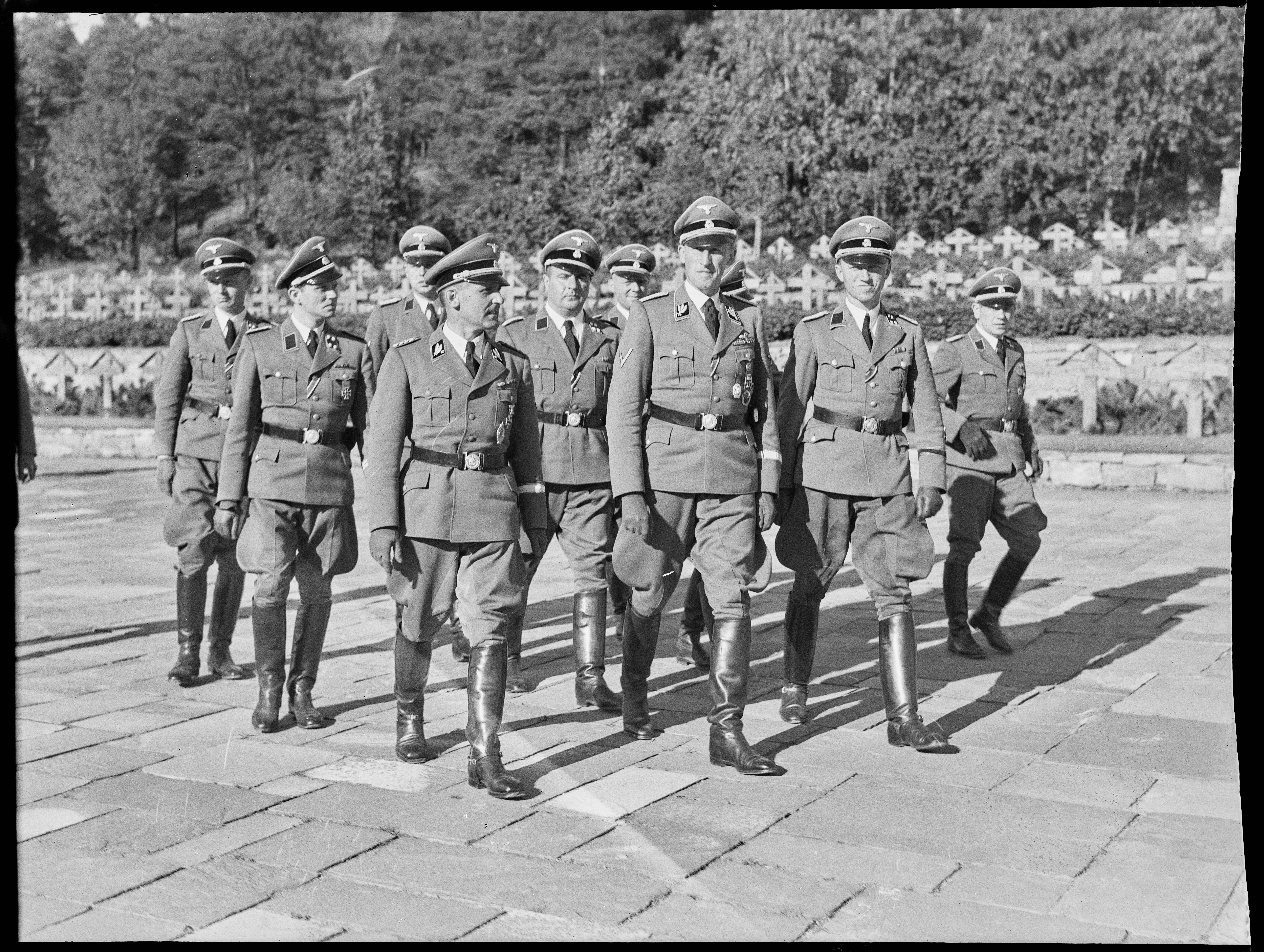 Reinhard Heydrich at Ekeberg cemetery for German soldiers in Oslo during his visit to Norway 3-6 September 1941. Heydrich (1904 – 1942) was a SS-Obergruppenführer und General der Polizei (Senior Group Leader and General of Police) as well as chief of the Reich Main Security Office RSHA (including the Gestapo, Kripo, and SD). Heydrich walking in front with SS Officer Georg Wilhelm Müller [note Not SS-Brigadeführer/SS-Gruppenführer Heinrich Müller (head of the Gestapo)] to his right and SS_Oberführer Heinrich Fehlis (leader of SD and Sipo in Norway) to his left. Also SS-hauptsturmführer Hermann Kluckhohn, SS-Sturmbannführer Walter Schellenberg, Rudolf Schiedermair, and other SS police officers.